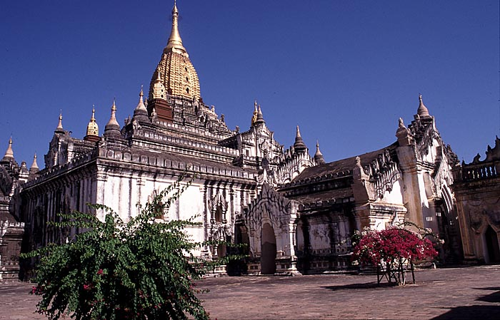 The Ananda Temple in Bagan in Myanmar